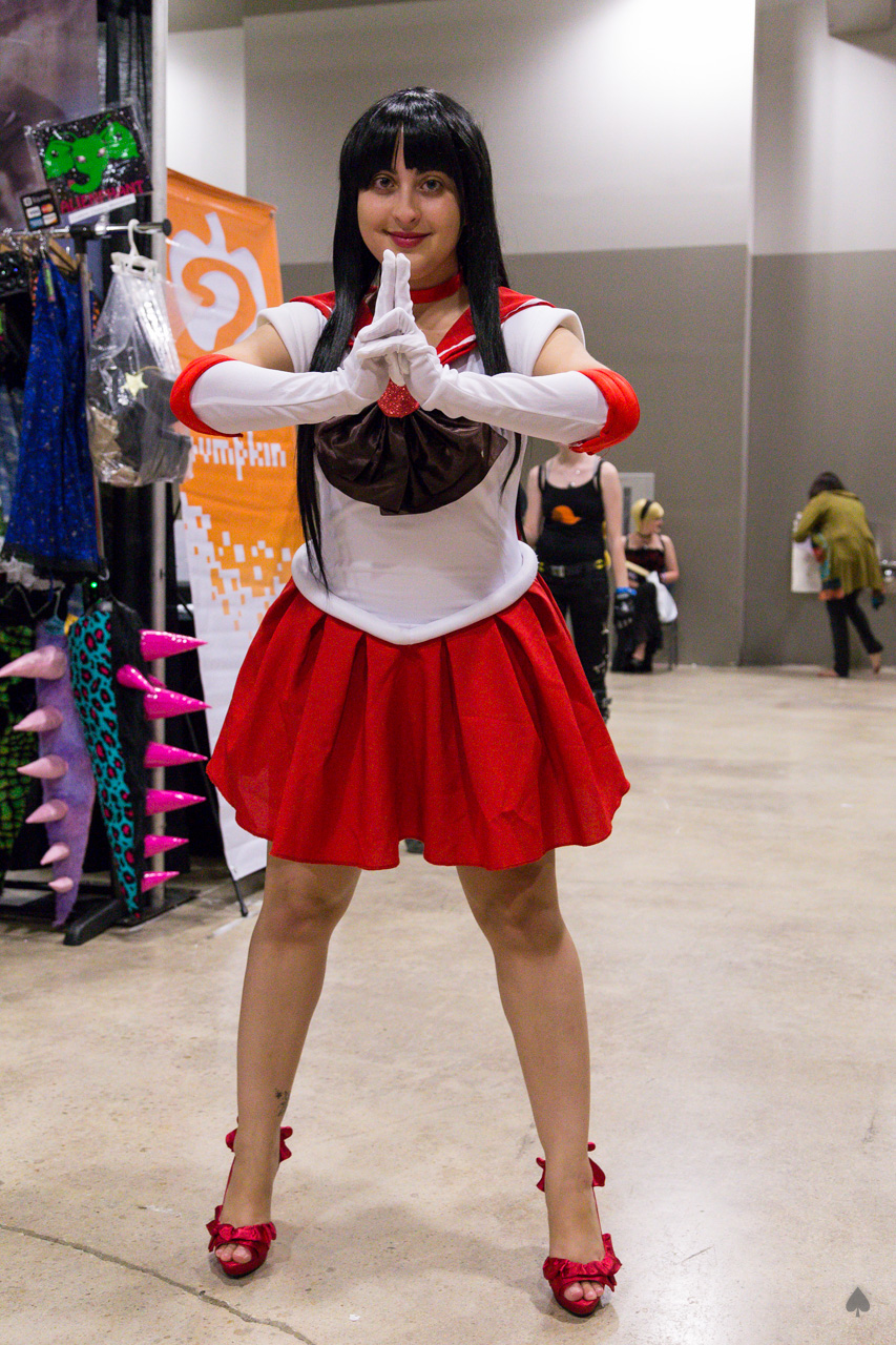 Sailor Mars